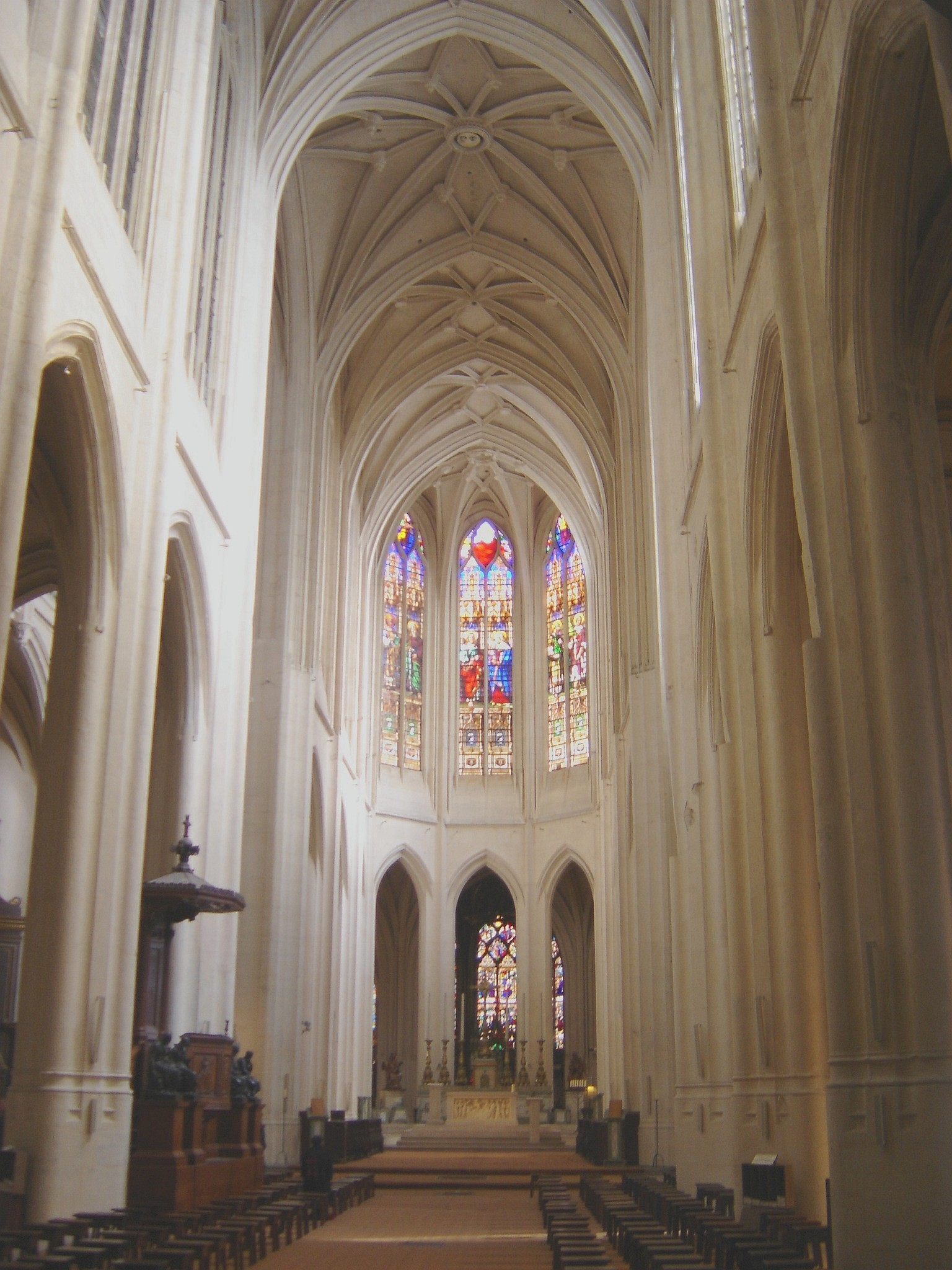 Church St-Gervais-et-St-Protais in Paris, France. Late gothic church (1494-17th century) with fassade in style classique (1616-21). View through nave towards east.